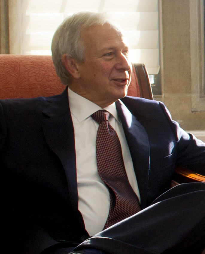 President of Duke University Richard H. Brodhead meets with Chairman of the Joint Chiefs of Staff Gen. Martin E. Dempsey at Duke University, NC, Jan. 12, 2012. DoD photo by D. Myles Cullen